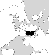 Manukau electorate 1928-38